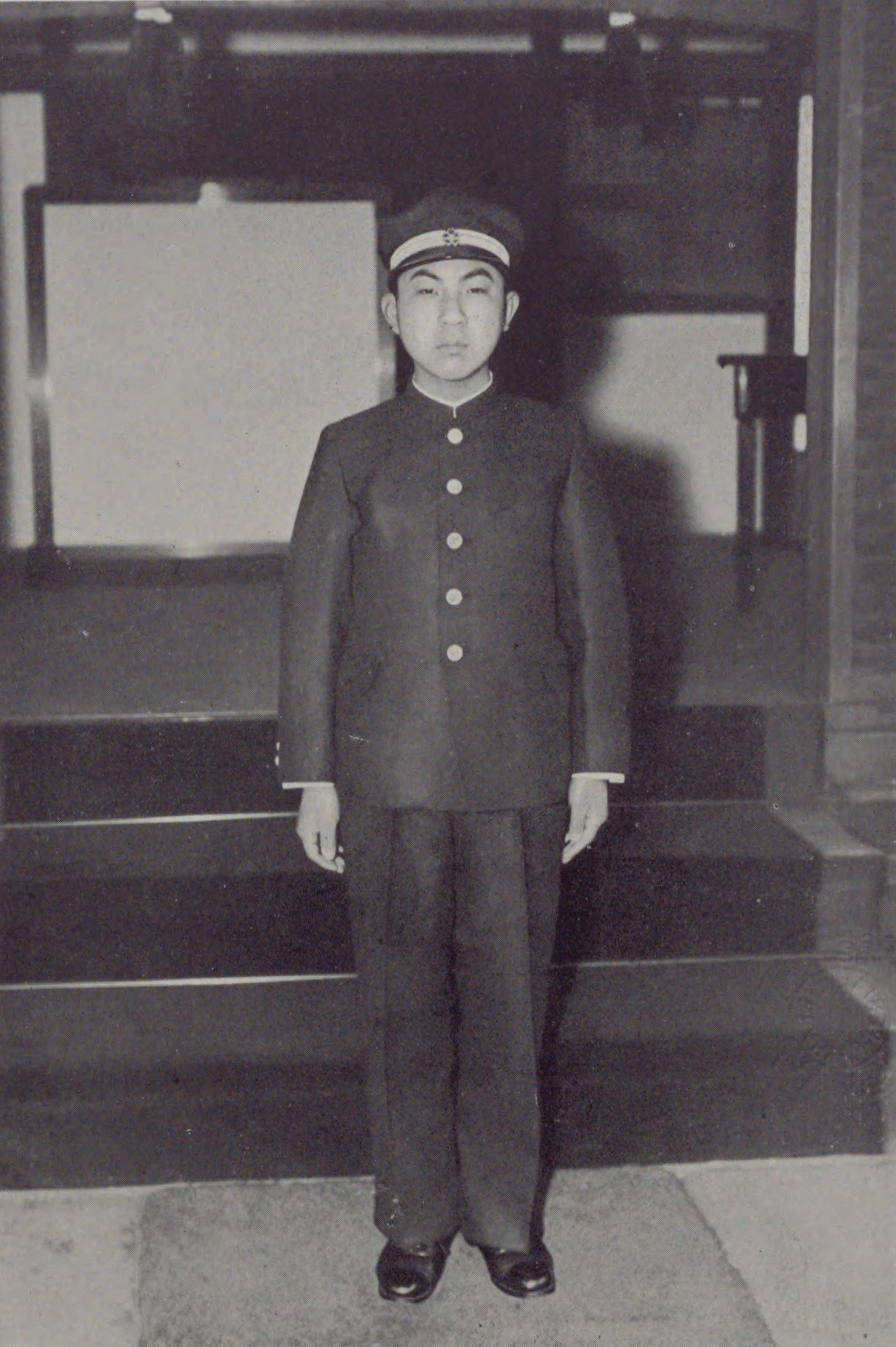 Prince Kuni Iehiko (later Uji Iehiko) as a student of Third Higher School.